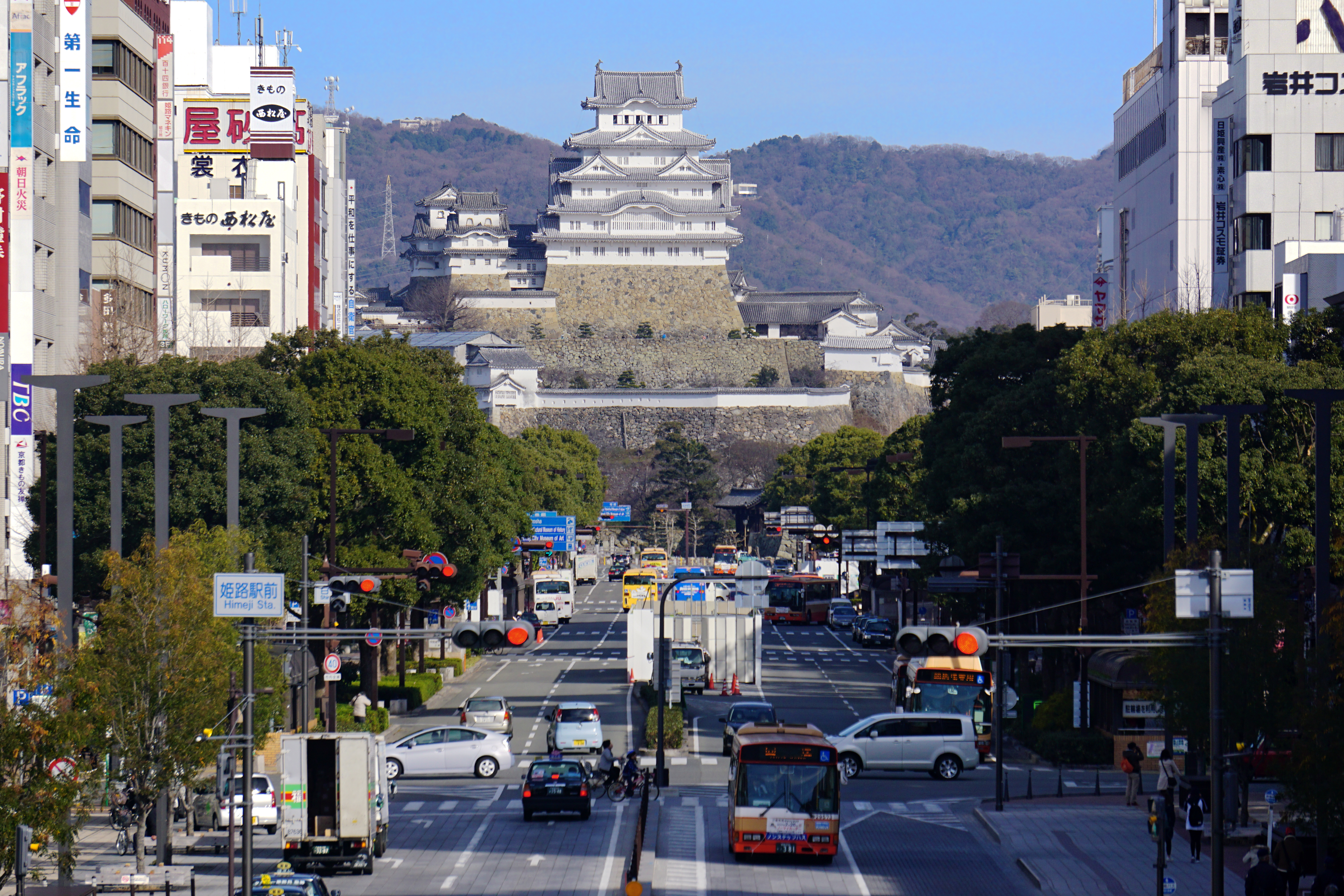 Himeji Castle view from Himeji Station in Himeji, Hyogo prefecture, Japan